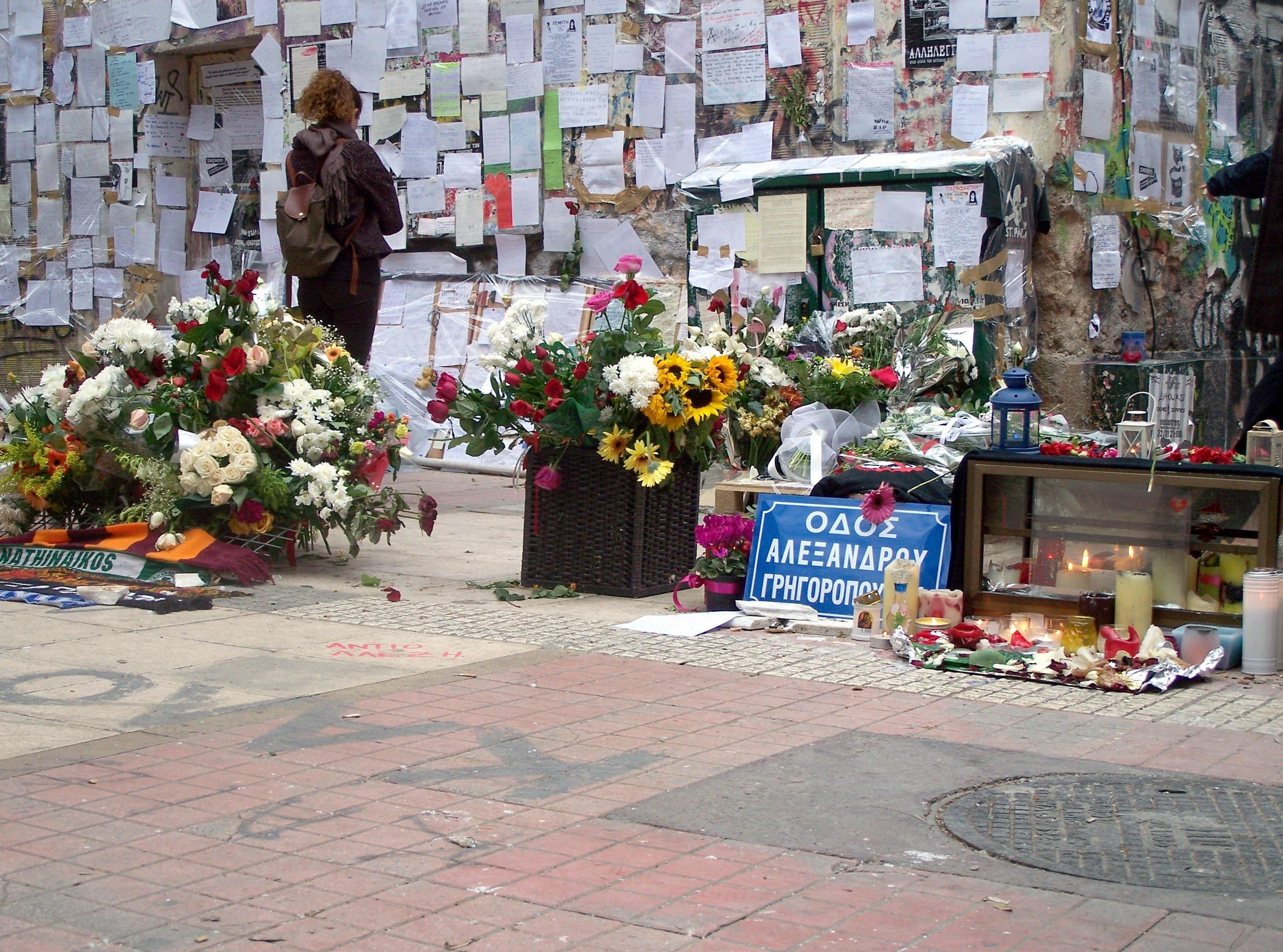 Memorial and offerings at the spot on Tzavella street, Athens, where Alexandros Grigoropoulos was killed.